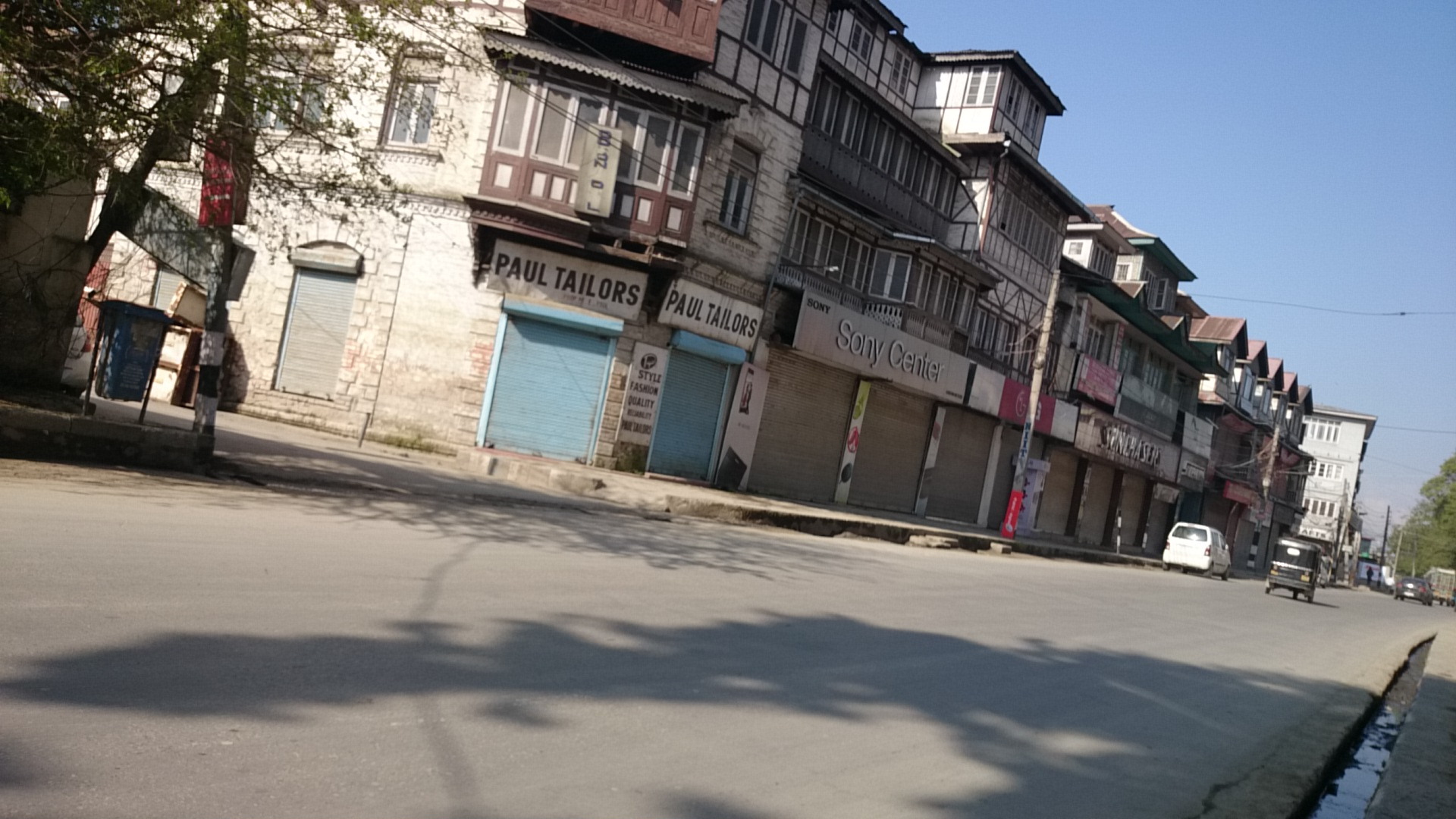 A morning view of Residency Road Srinagar.